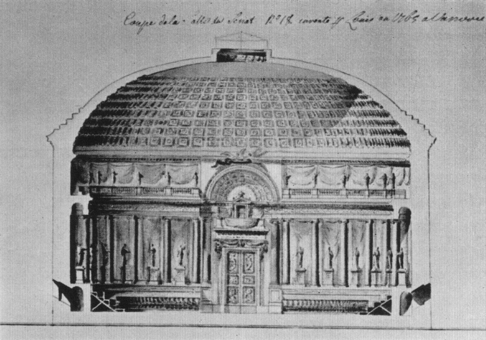 Senate Chamber at Royal Castle in Warsaw design.